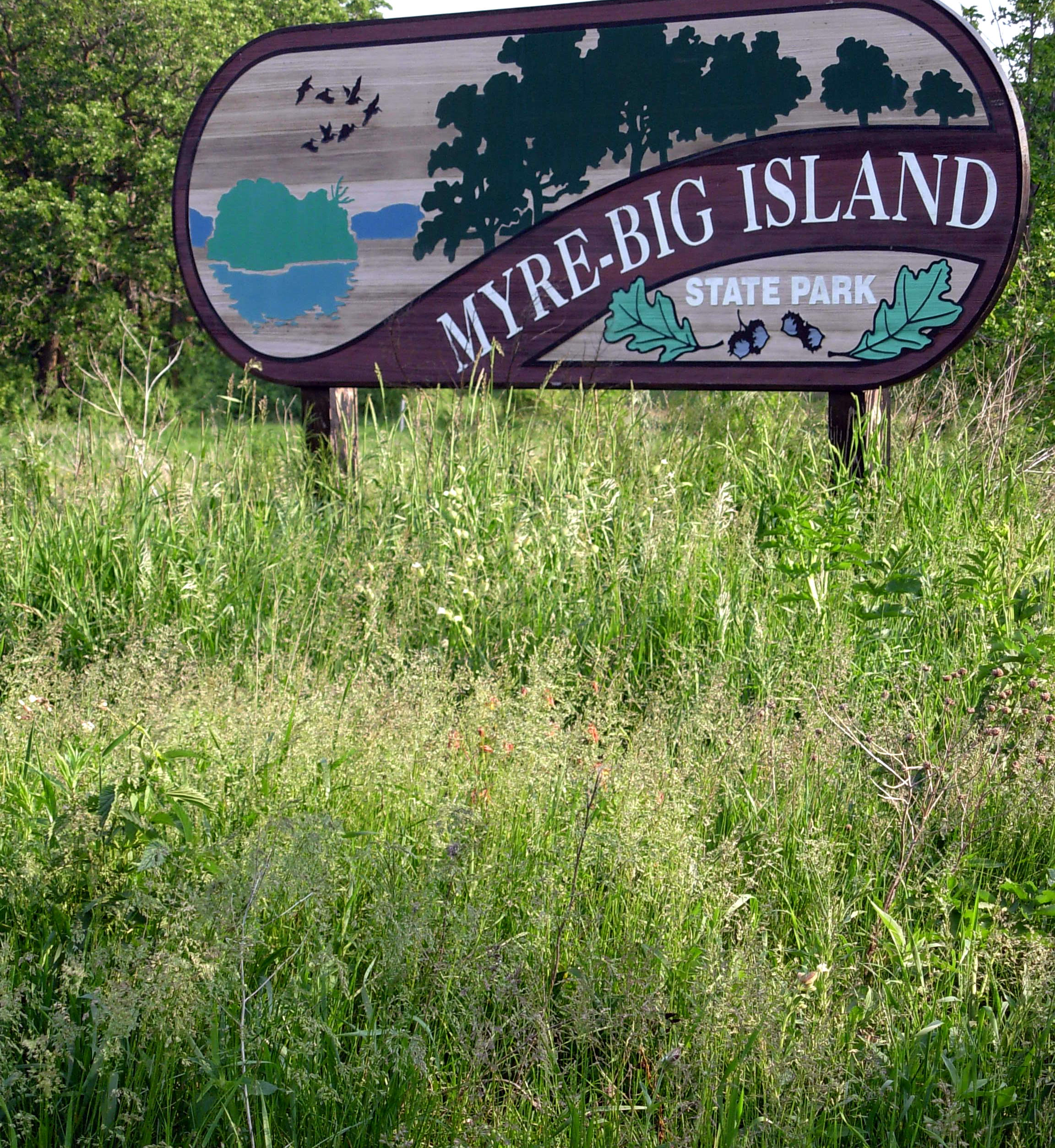 Myre-Big Island State Park main entrance.